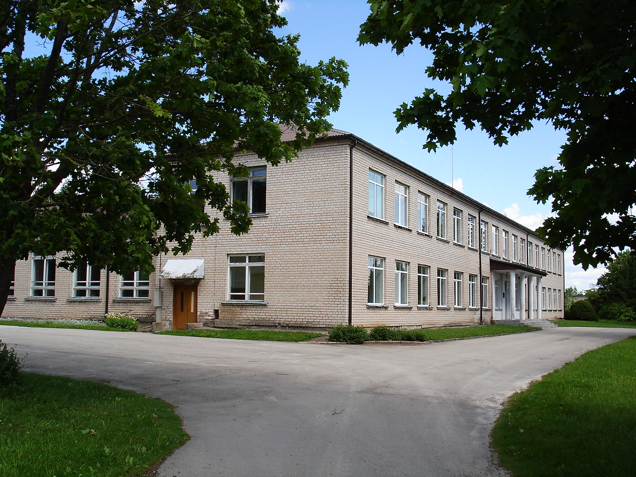 Sprogi school